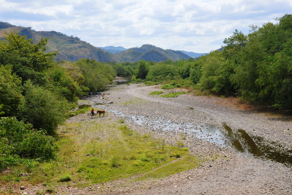 Río Sinecpa desde el puento a Santa Rosa del Peñón, Nicaragua.